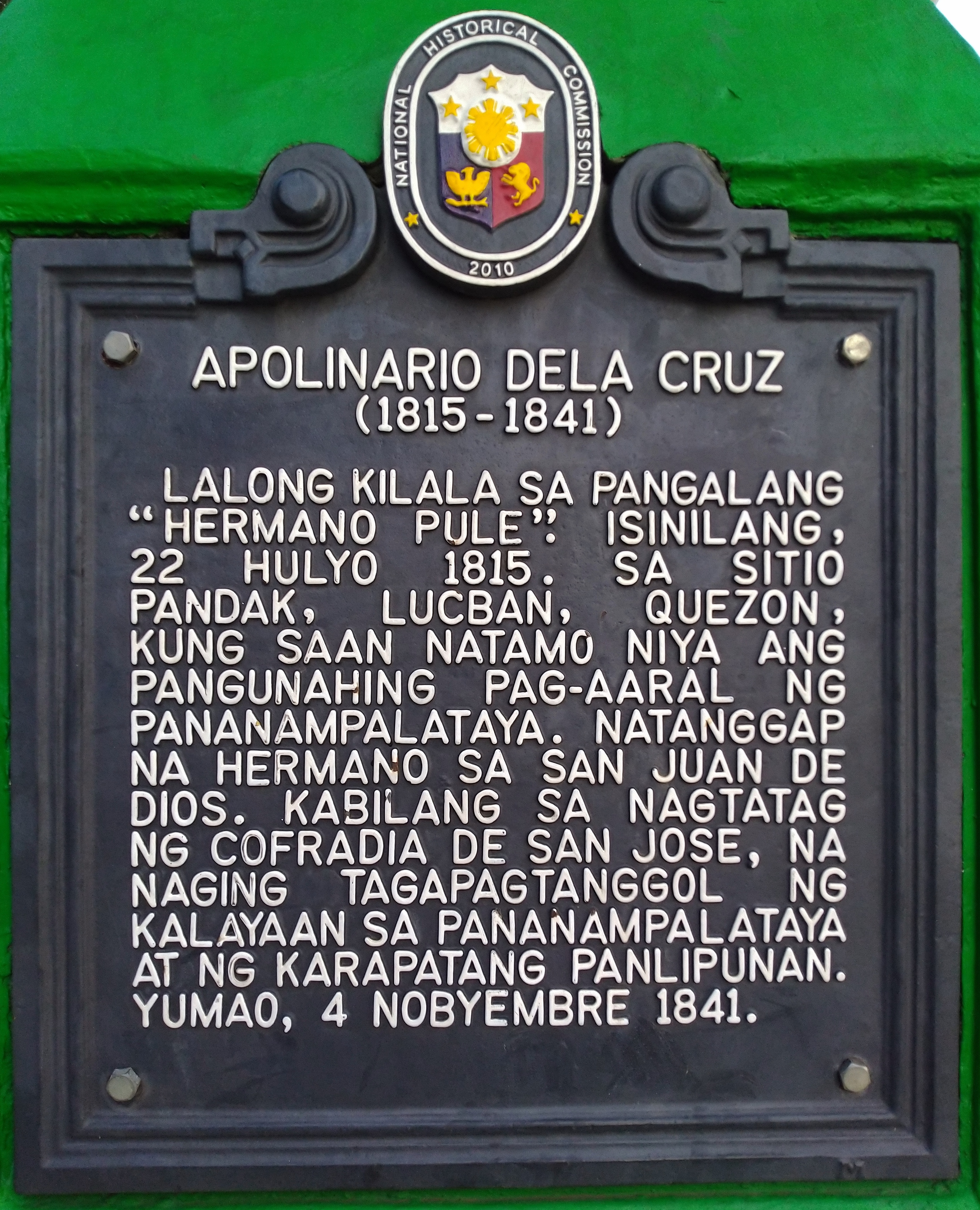 Hermano Pule Monument in Barangay Isabang, Tayabas City